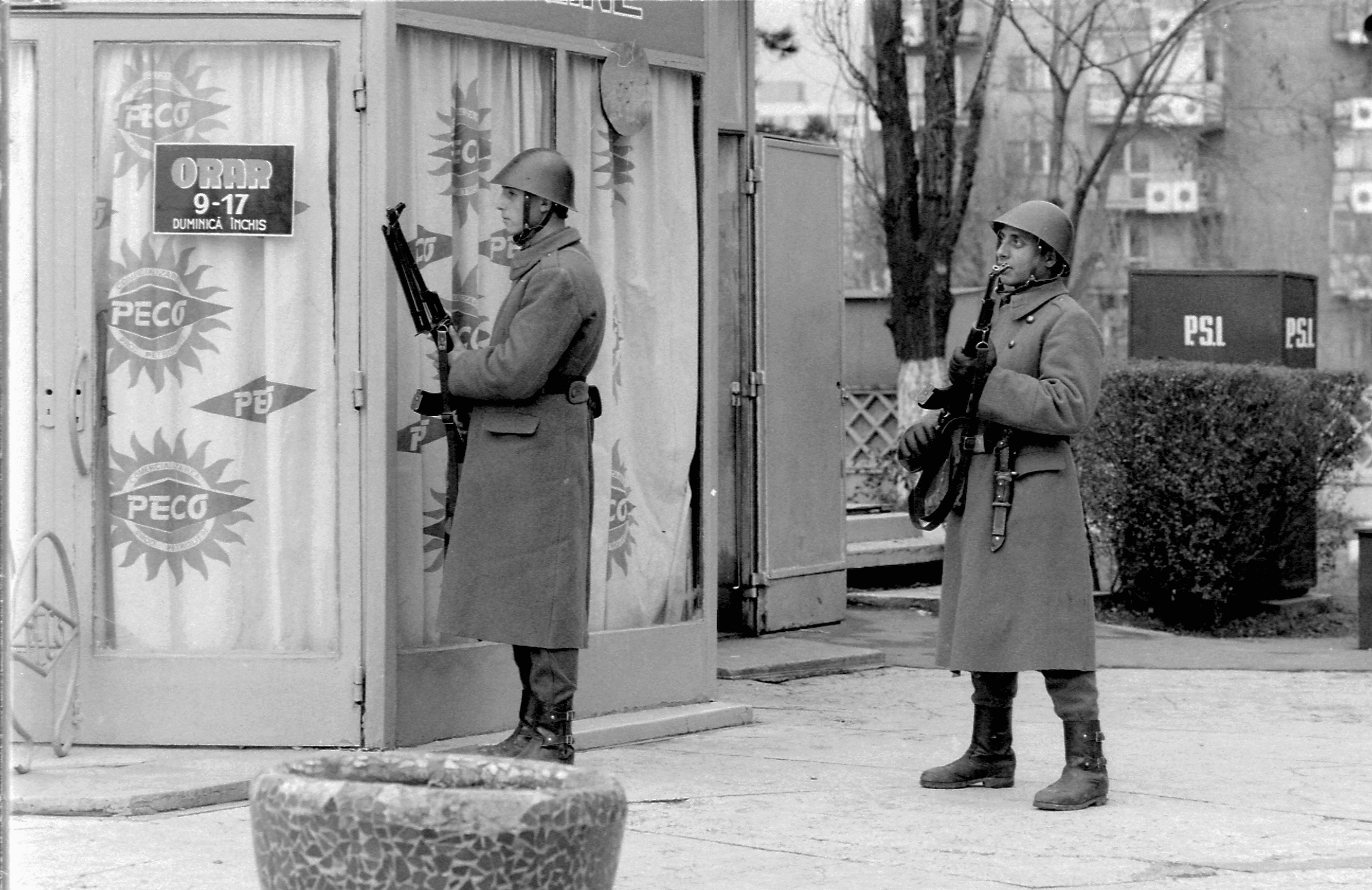 Location: Romania, Transylvania, Timisoara Tags: soldier, weapon, Kalashnikov, men, uniform, shop